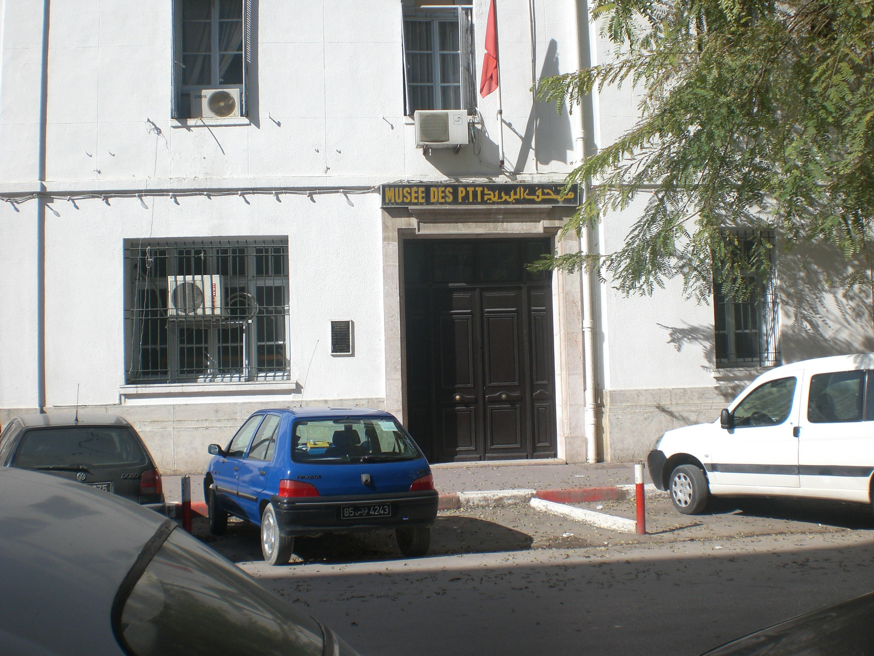 Poste Museum in Tunis